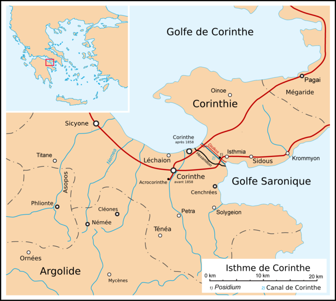 Corinth's Isthmus with Diolkos